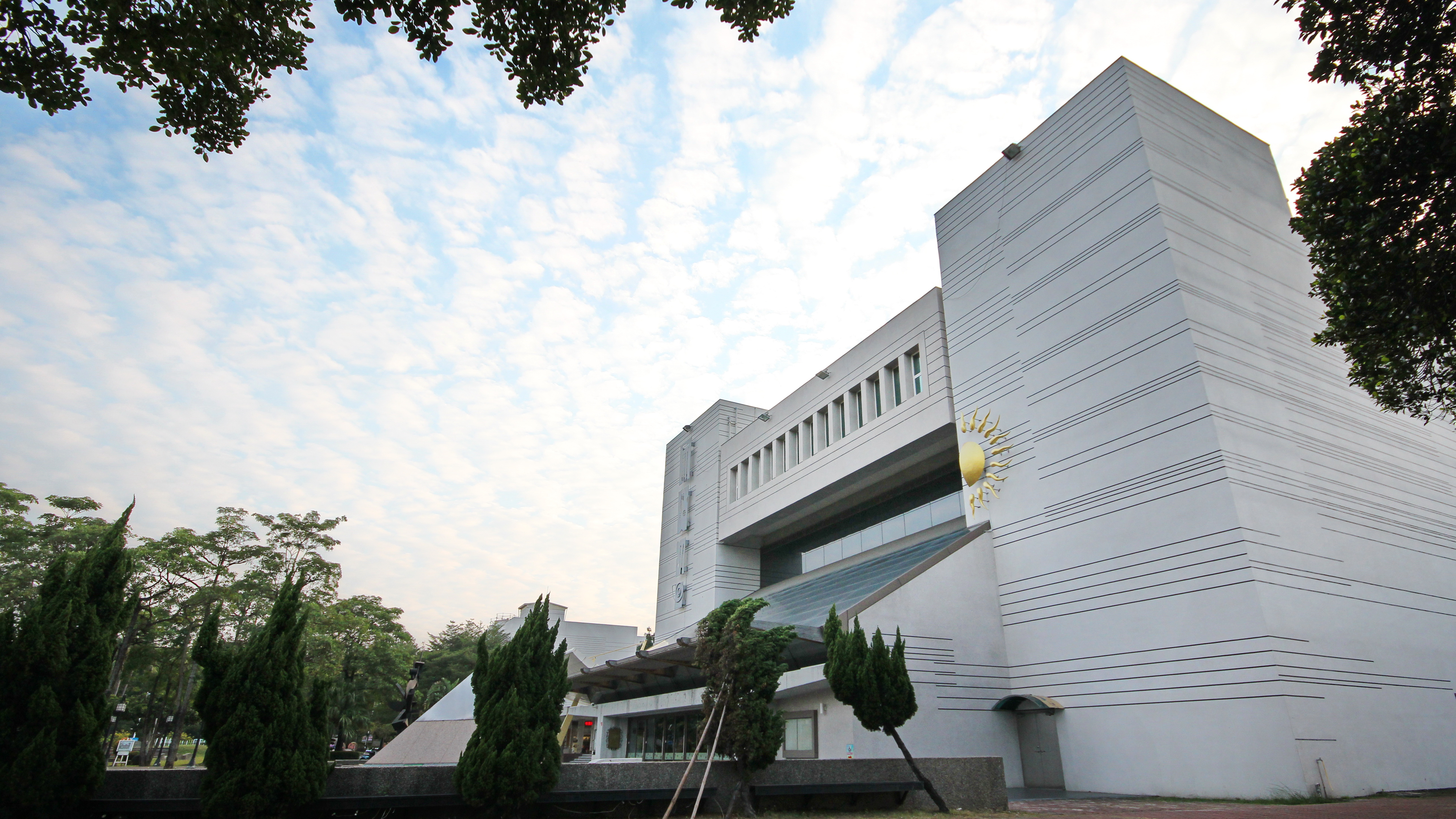 Chiayi City Cultural Center Performance Hall, Taiwan.